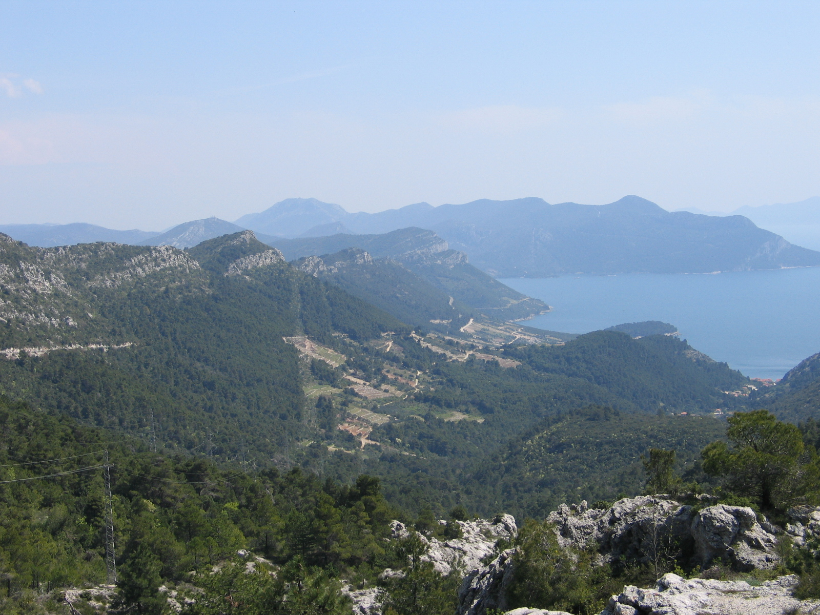 South coast of Pelješac, a view towards the mainland.